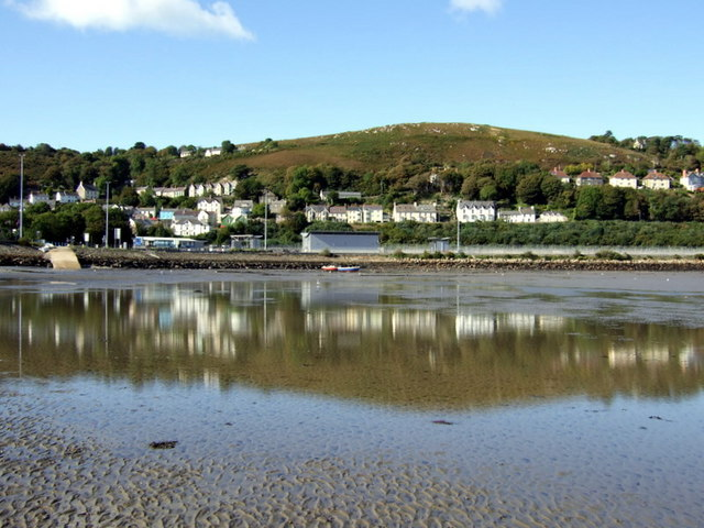 Wdig/Goodwick reflections This view north across the bay shows houses in Quay Road and New Hill built for the white-collar employees of the harbour and rail developments in the early C20. Although there would have been a small fishing fleet here in earlier times, any buildings associated were swept away by 'progress' while the main settlement of the original village was a little further inland, around Dyffryn.